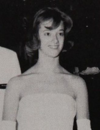 Photo of Sondra Locke as a senior in high school